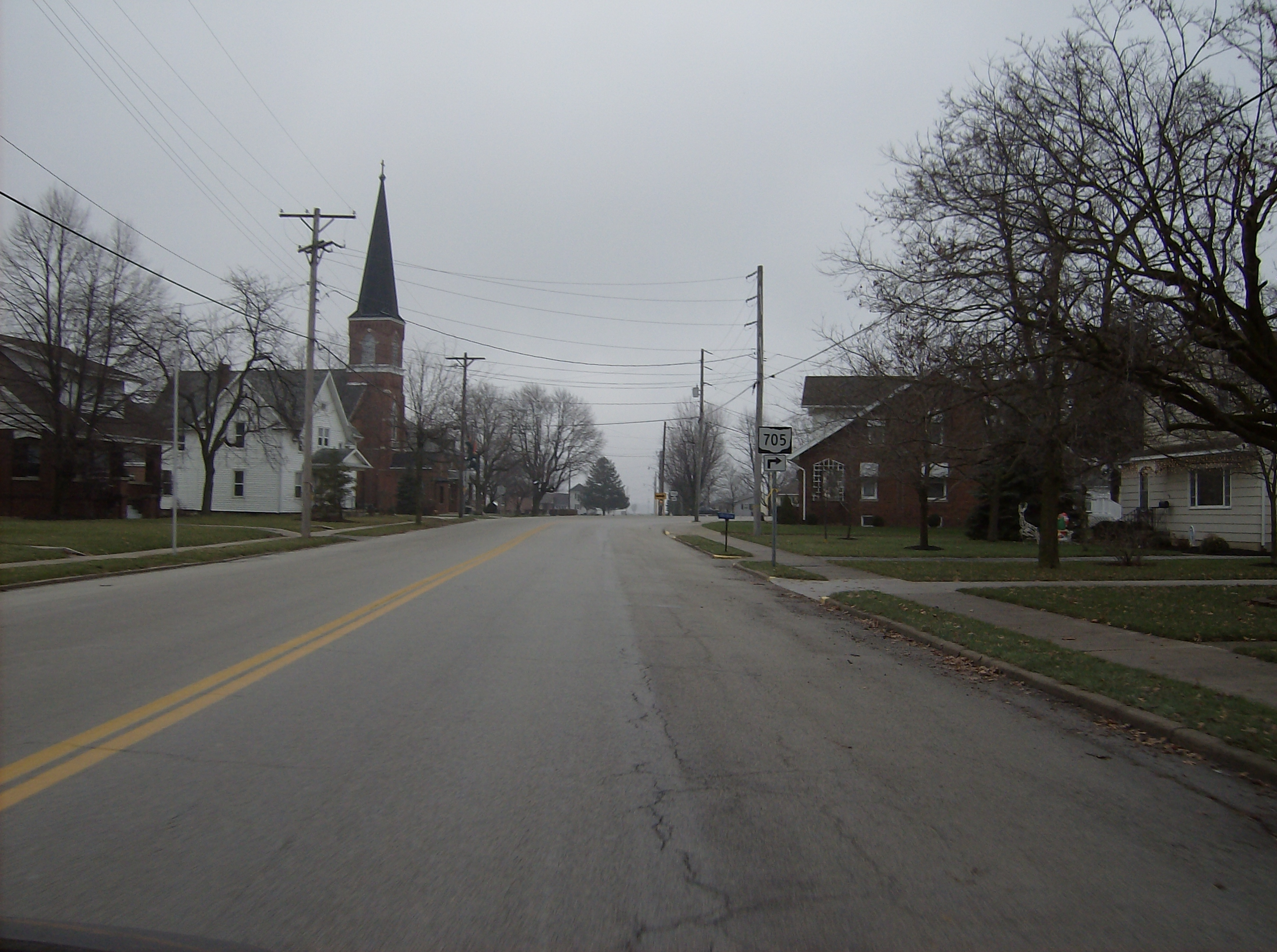 Eastward along Main Street (State Route 705) in central Osgood, a village in northeastern Darke County, Ohio, United States. Note St. Nicholas Catholic Church on the left edge of the picture; built in 1907, it is listed on the National Register of Historic Places.